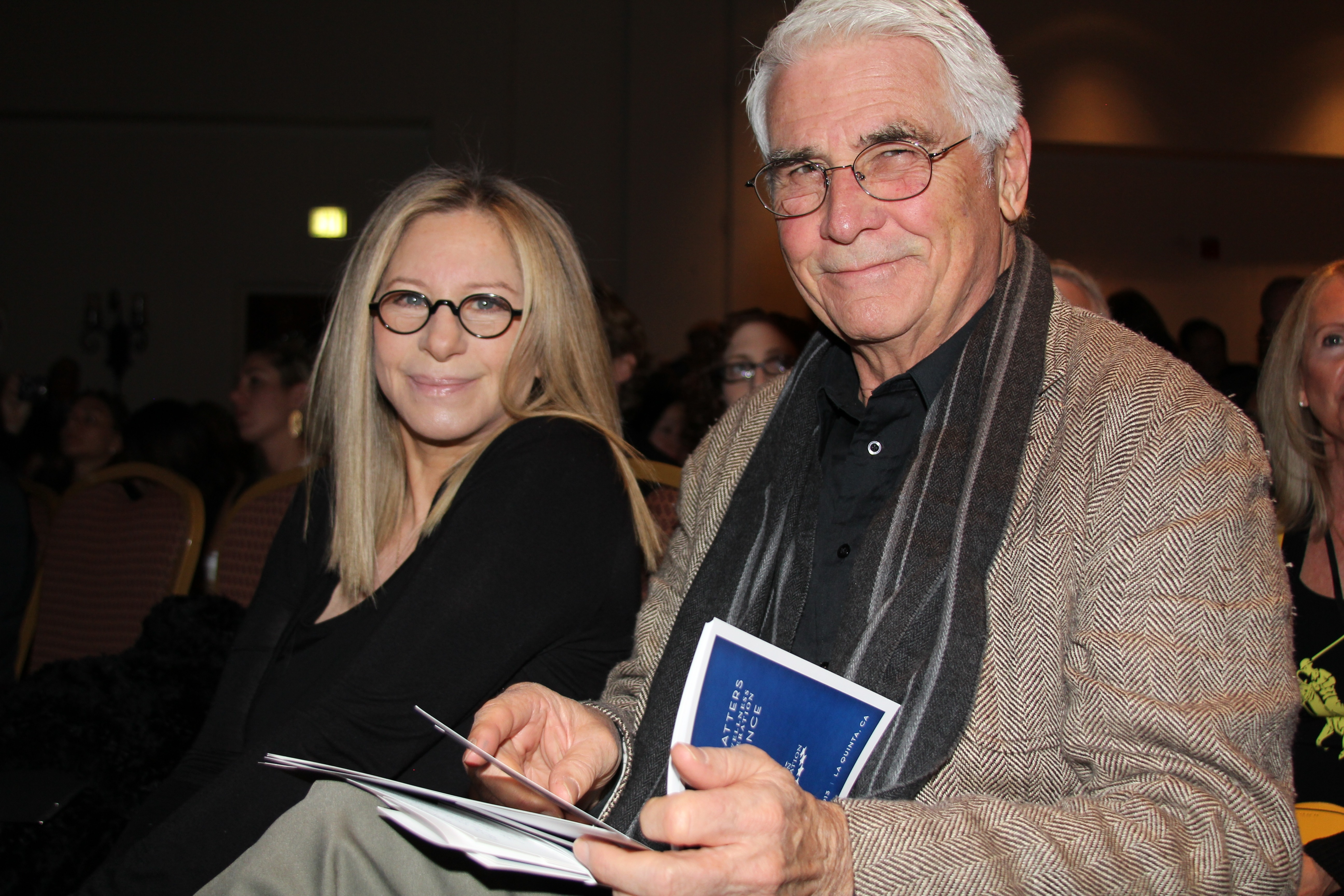 Barbra Streisand and James Brolin at the Clinton "Health Matters" Conference in La Quinta, California